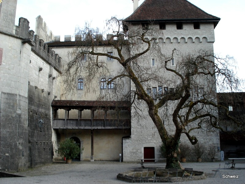 Castle Lenzburg view from Courtyard